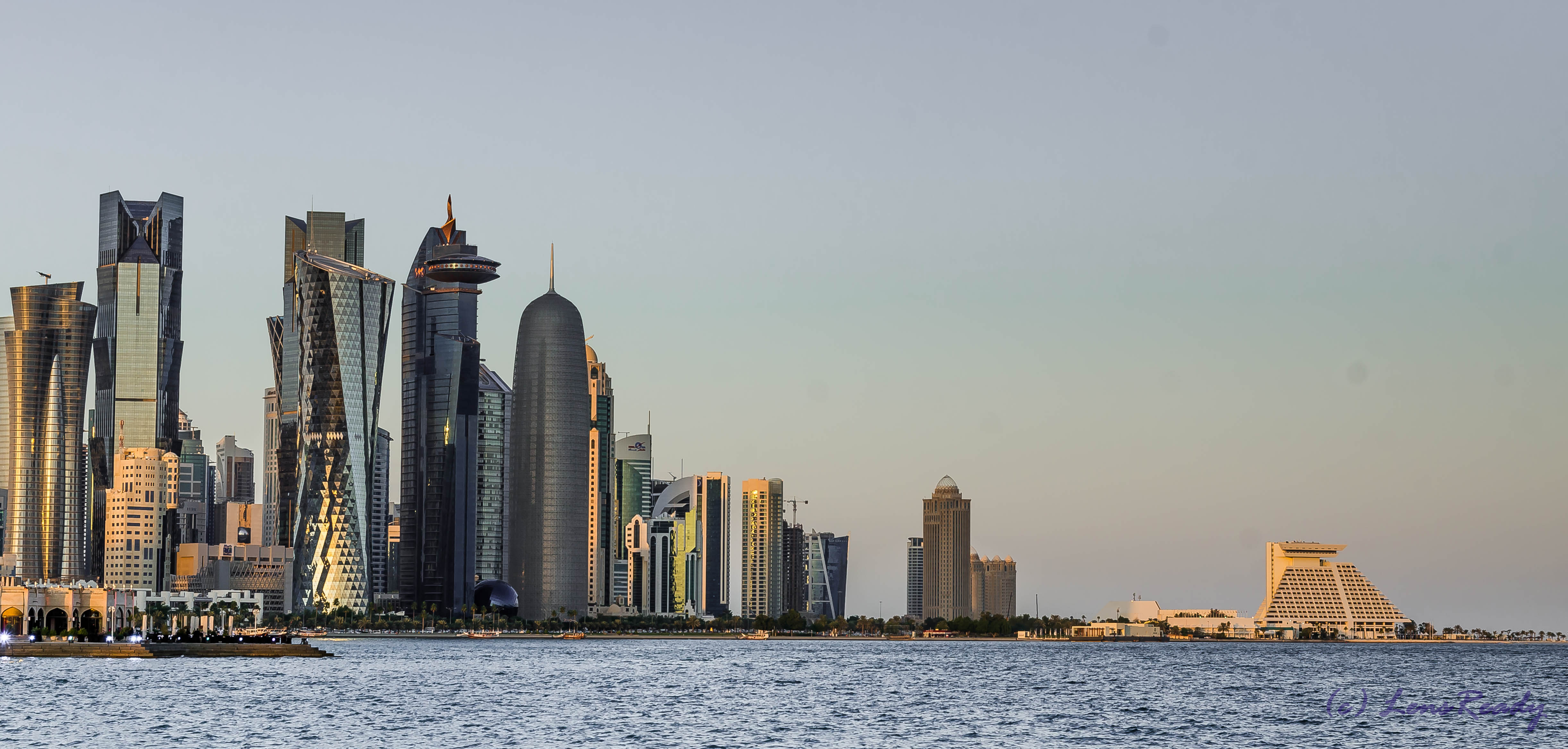 DOHA SKYLINES